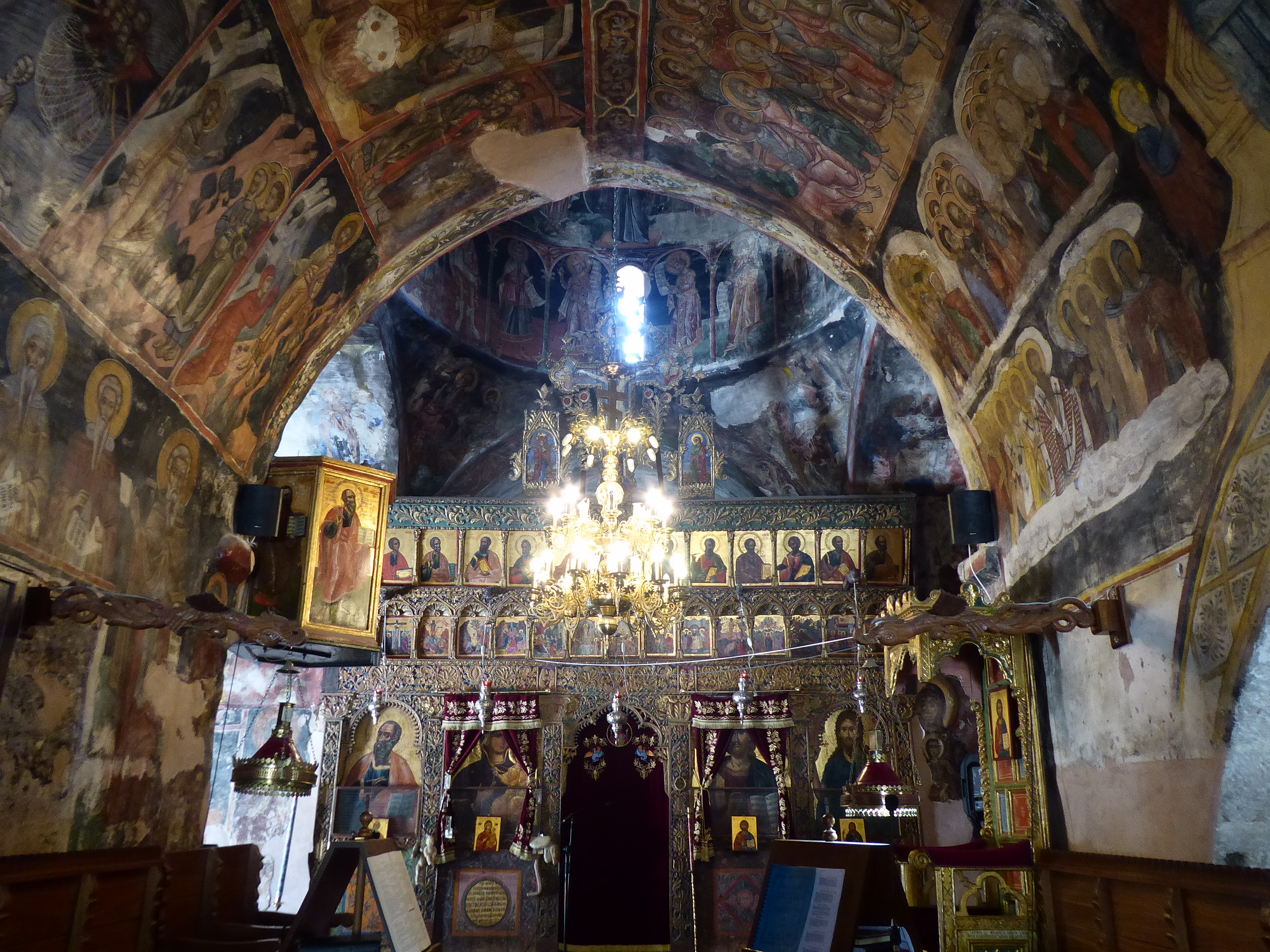 Panagia Chryseleousa, Emba